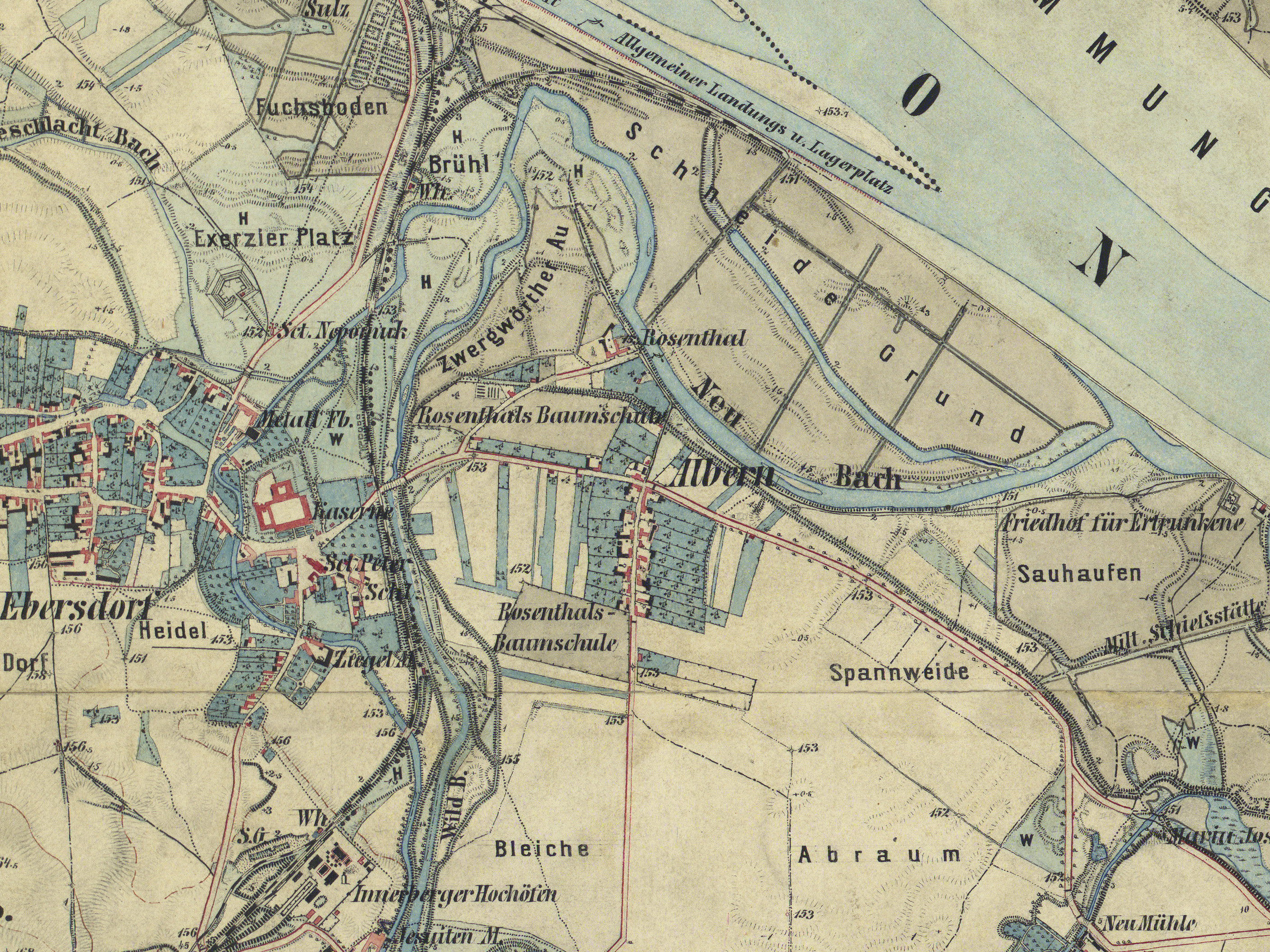 Map of Albern near Vienna, 1873